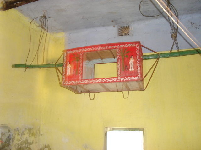 An old palanquin preserved in a rural household in West Bengal, India. A possession of the Dutta Family of Ramsagar (Bankura Dist), this particular palanquin is only used for some Durga Puja rituals now.